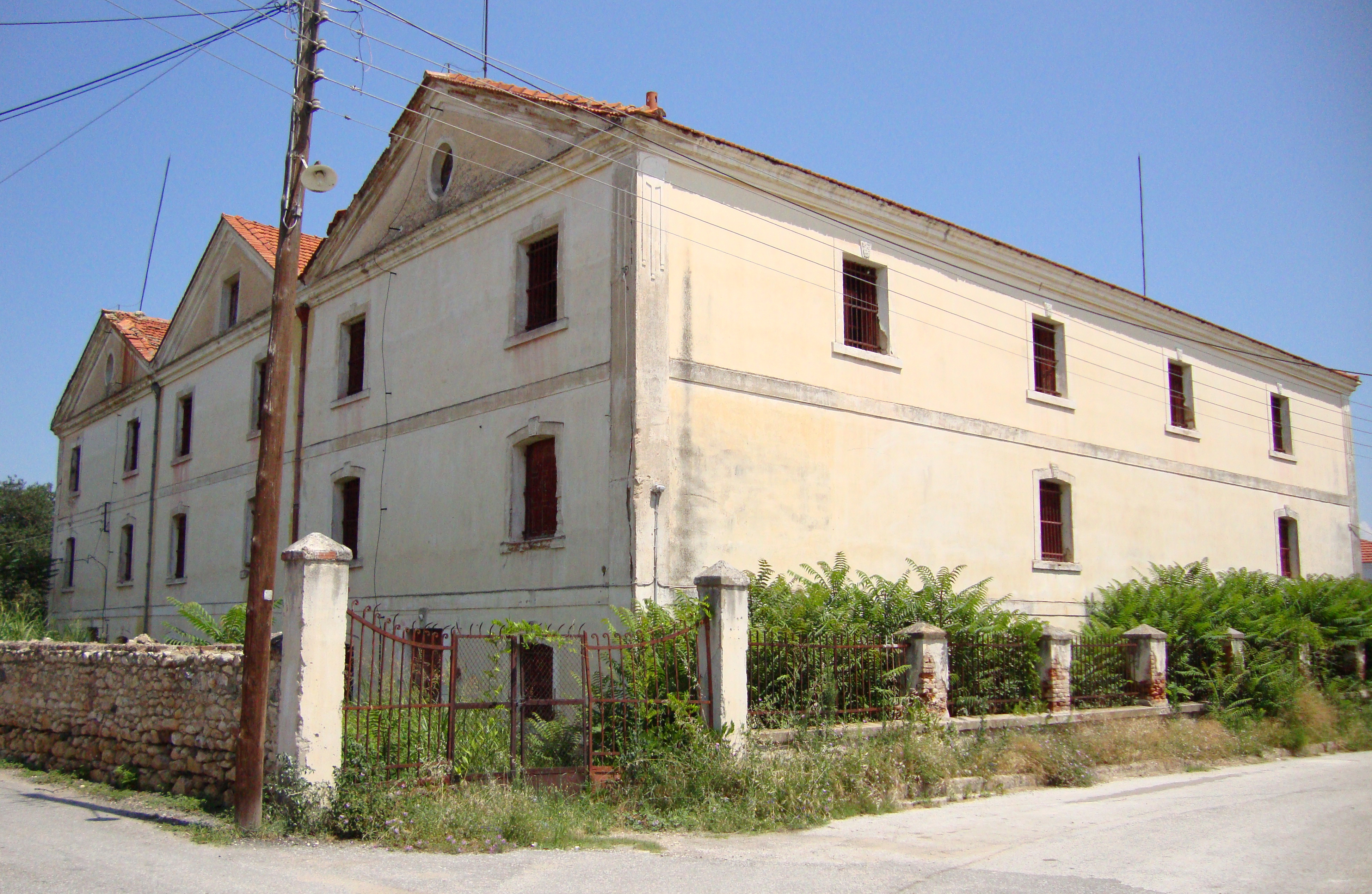 Kapnomagazo building in Nigrita, Serres, Greece